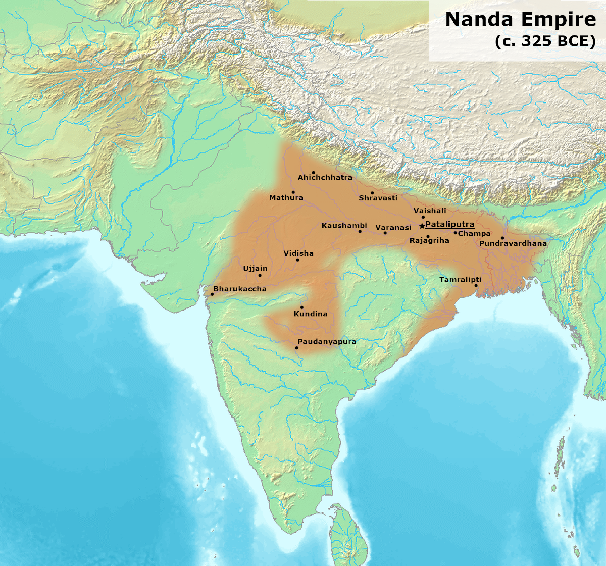 Sources: Schwartzberg, J. E. (1992), A Historical Atlas of South Asia: University of Oxford Press Background from Made with GIMP Note: Kalinga was conquered by the Nanda Dynasty but subsequently broke free until it was re-conquered by Ashoka, c. 260 BCE. (Raychaudhuri, H. C.; Mukherjee, B. N. 1996. Political History of Ancient India: From the Accession of Parikshit to the Extinction of the Gupta Dynasty. Oxford University Press, pp. 204-209, pp. 270-271)